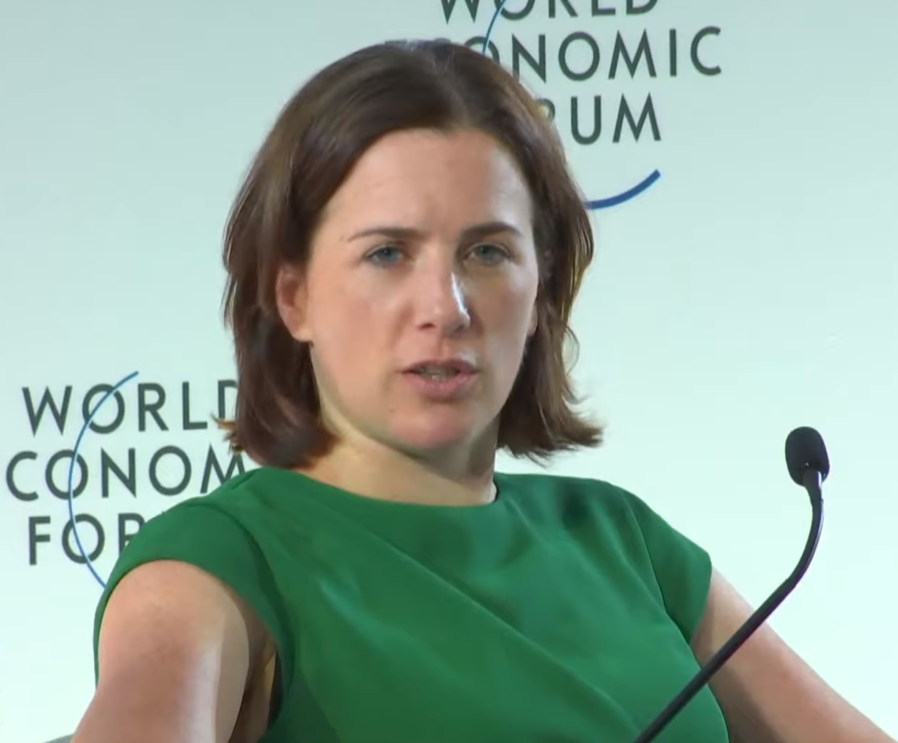 Air pollution is a clear and urgent danger to public health. Outdoor air pollution is responsible for 4.2 million deaths – more than from malaria and HIV/Aids combined, and more than 90 percent of the world’s population lives in areas that exceed World Health Organization (WHO) guidelines for ambient air quality. But while governments, cities and communities around the world are seeking to address the air pollution crisis, businesses are largely missing from the picture. This session features the launch of the Clean Air Fund and will tackle the role business can play in addressing air pollution. · Jane Burston, Managing Director, Clean Air Fund, United Kingdom; Young Global Leader · Katherine Garrett-Cox, Chief Executive Officer, Gulf International Bank (UK), United Kingdom; Young Global Leader · Christoph Wolff, Head of Mobility Industries and System Initiative, World Economic Forum Moderated by · Alem Tedeneke, Media Lead, Canada, Latin America and SDGs, World Economic Forum